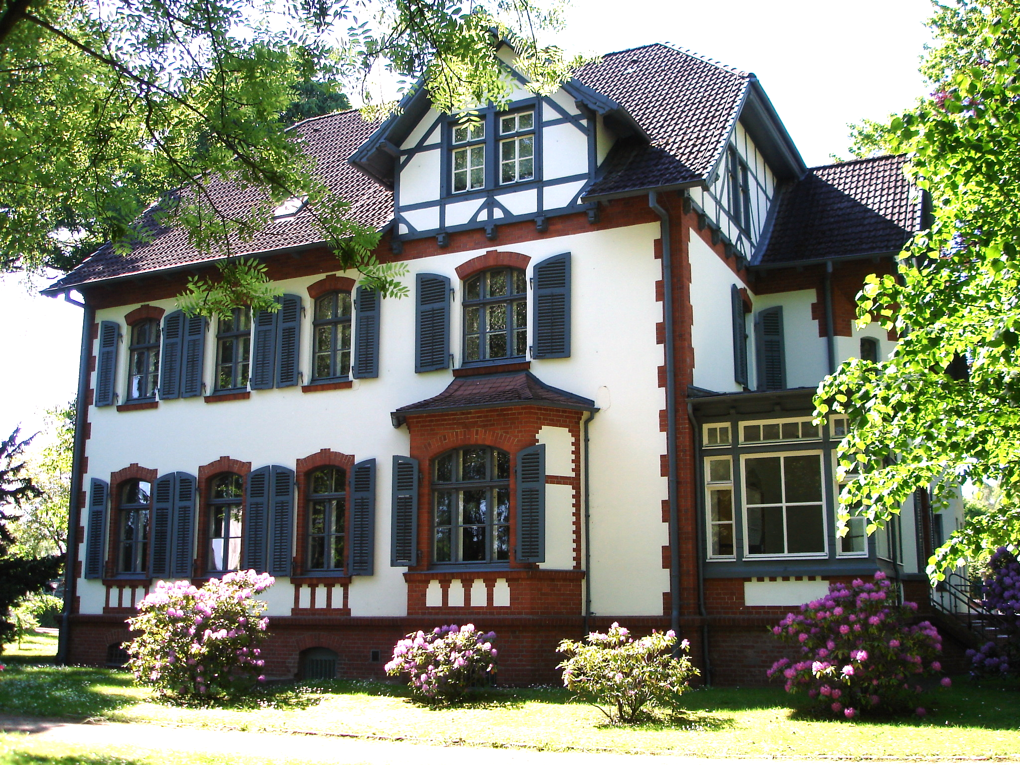 Das ehemalige Kommandantenhaus des Lockstedter Lagers, heute Sitz der Verwaltung.